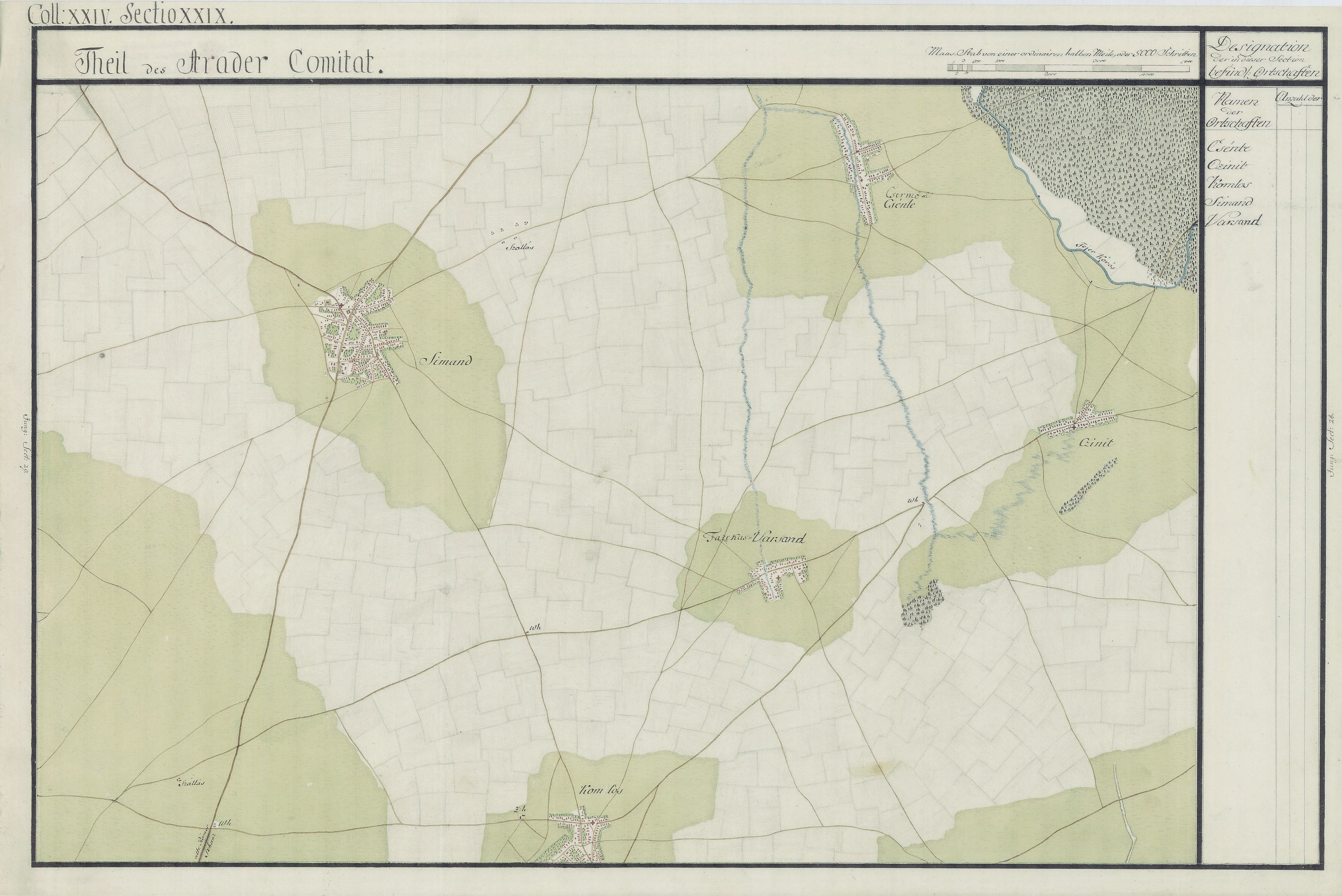 Arad County, 1782-85. Josephinische Landesaufnahme pg.24-29